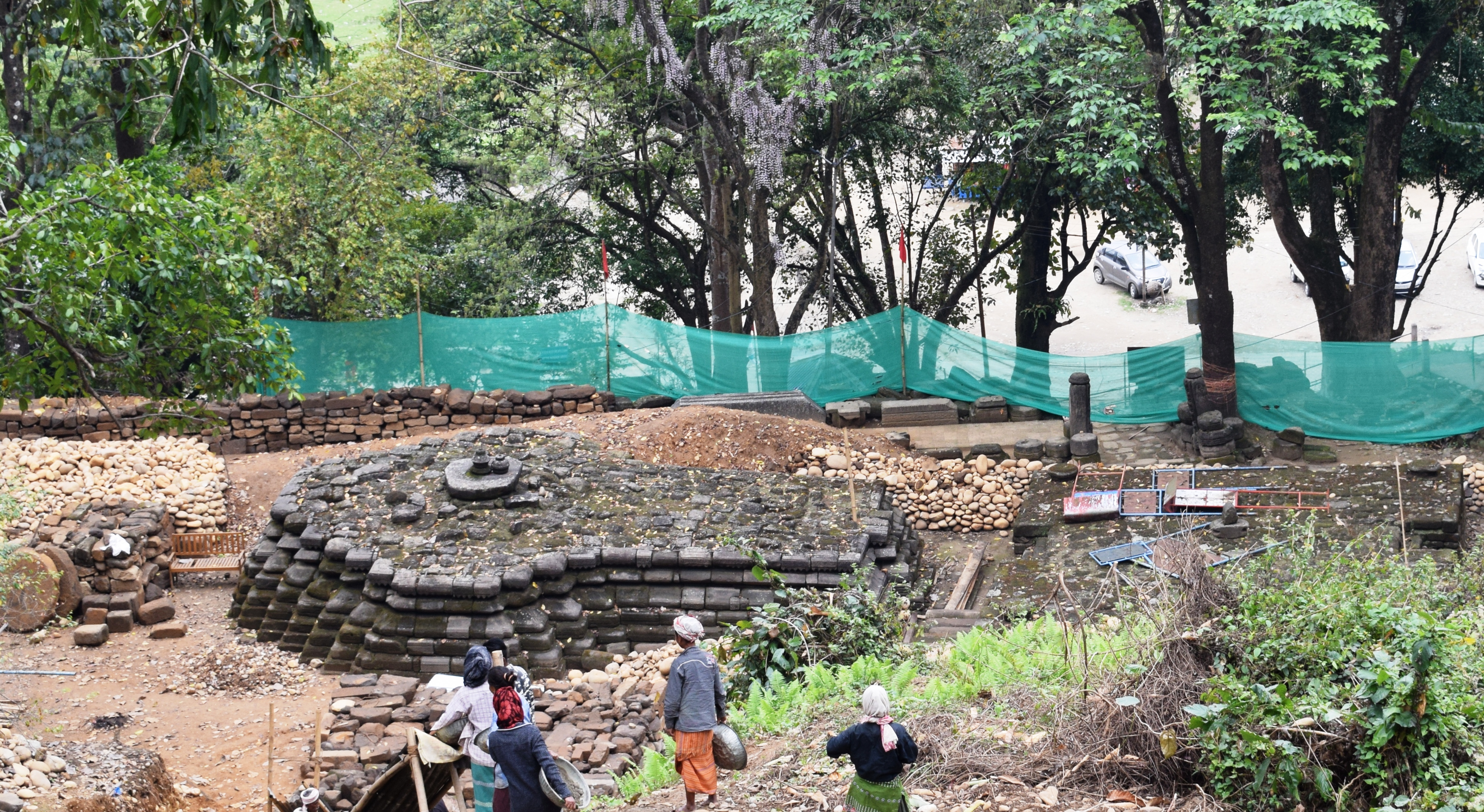 Located in the foothills of the Siang hills, hardly a kilometer from the Likabali, Malinithan Temple was once an extravagant site but now completely in ruins. It was in early 20's, between 1968 and 1971, all these relics were unearthed on this site. The ruins found nearby the temple indicates that it was built with granite stones during the period of Aryan influence in the region.